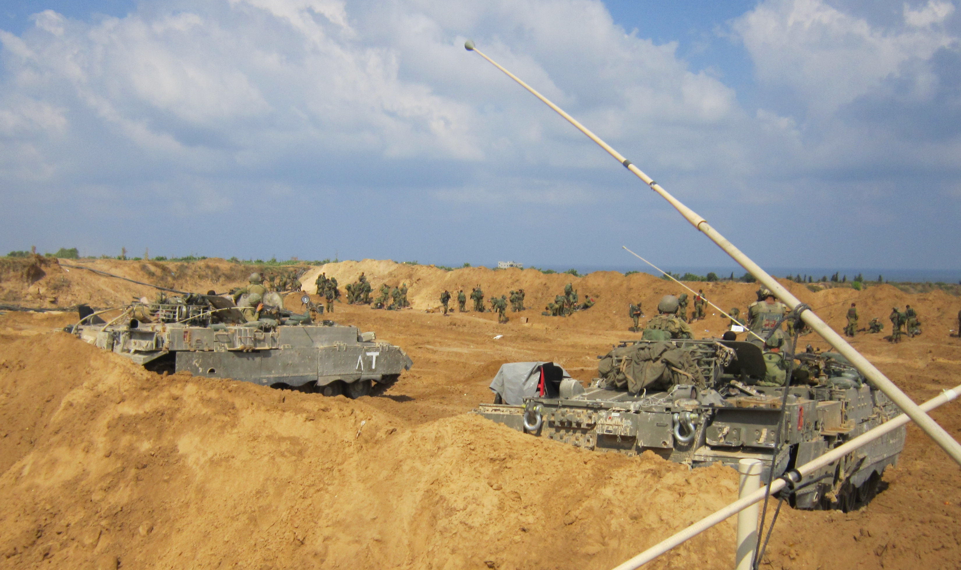 IDF Puma CEV/APCs of the Combat Engineering Corps. The 401 armored Brigade operates near the Gaza border, 27/7/2014 For more updates: The Israel Defense Forces Facebook The Israel Defense Forces blog Follow us on Twitter